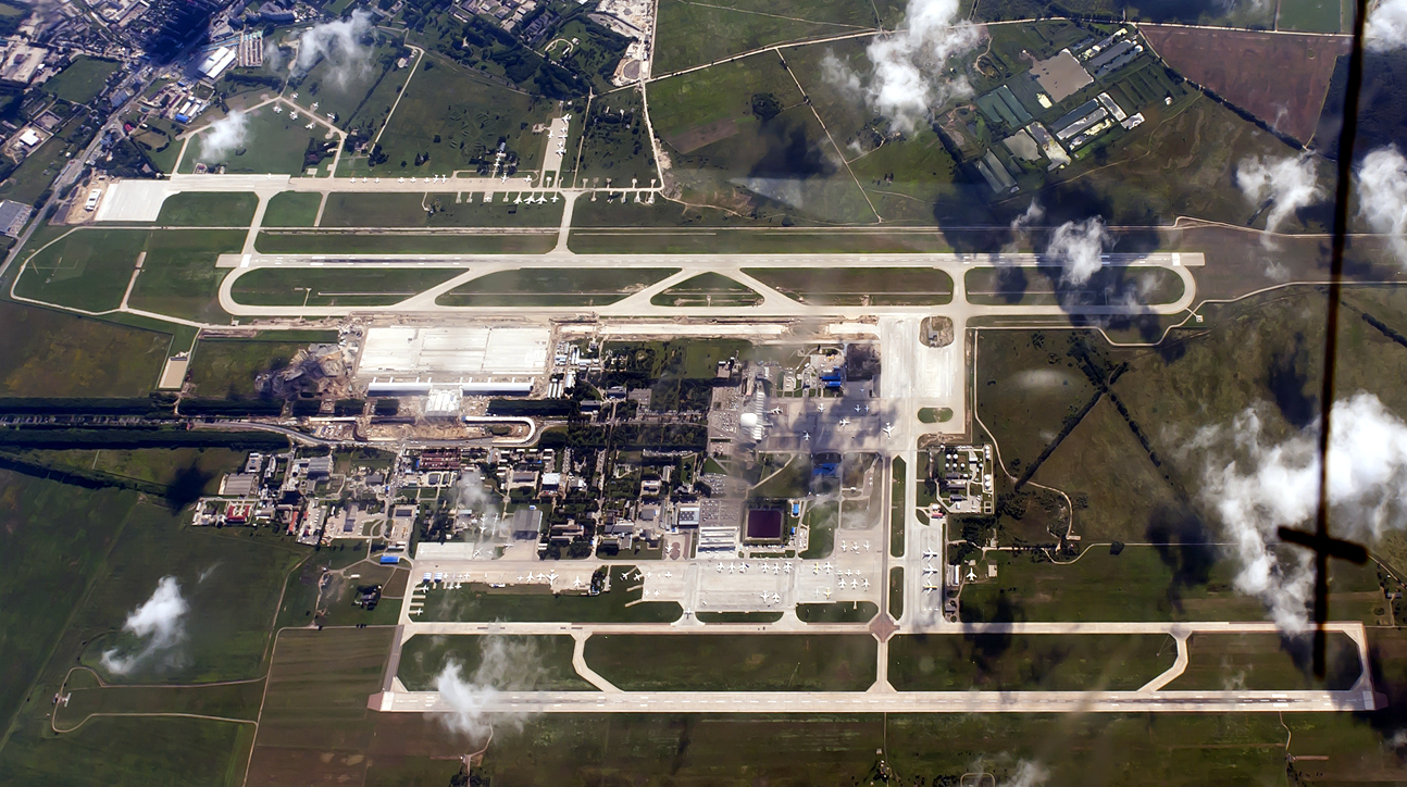 Aerial shot of Kiev Boryspil Intl Airport, Kiev, Ukraine